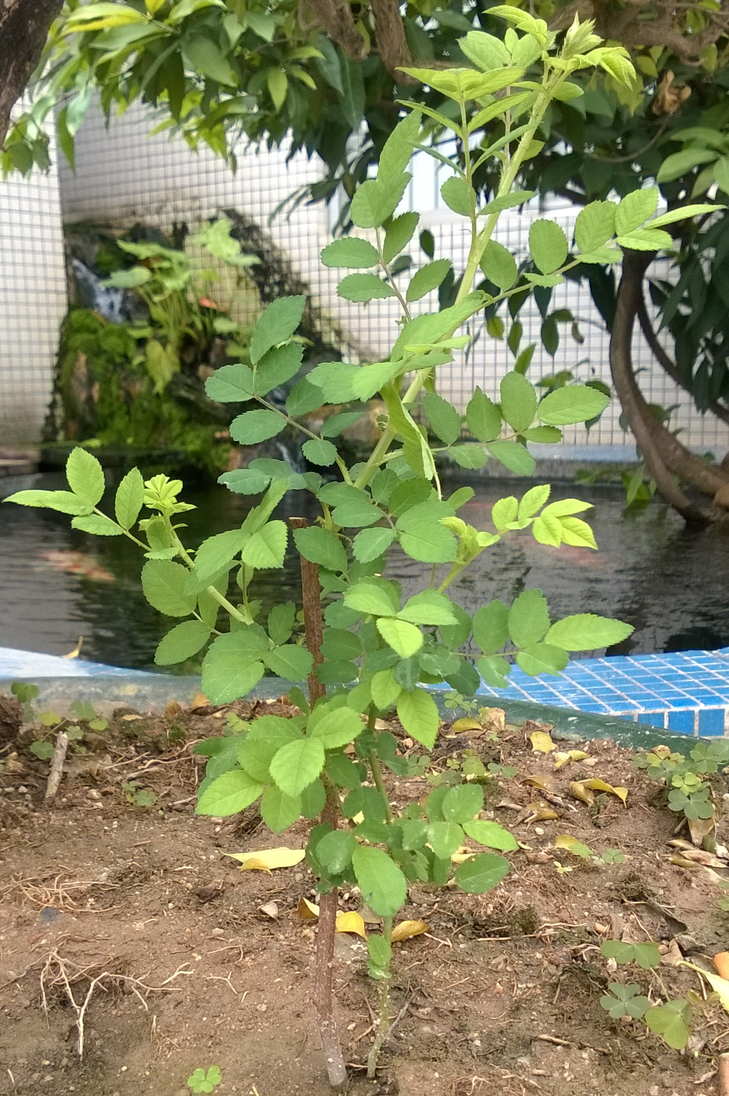 Rosa polyantha, only a month after the seedlings sprout